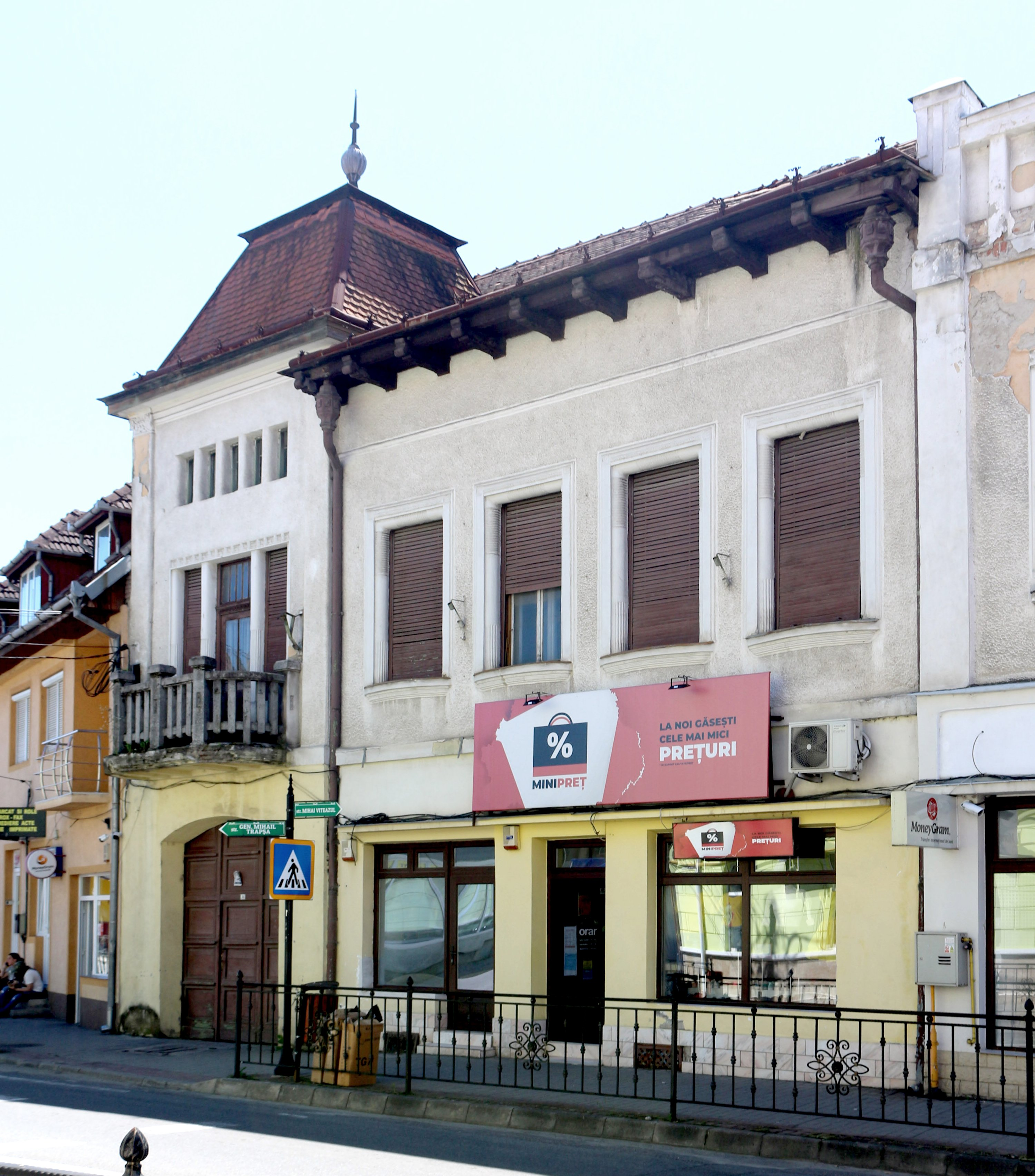 Macedonian merchants' home, Caransebeș, Mihai Viteazul St., no. 36, built 18th century.